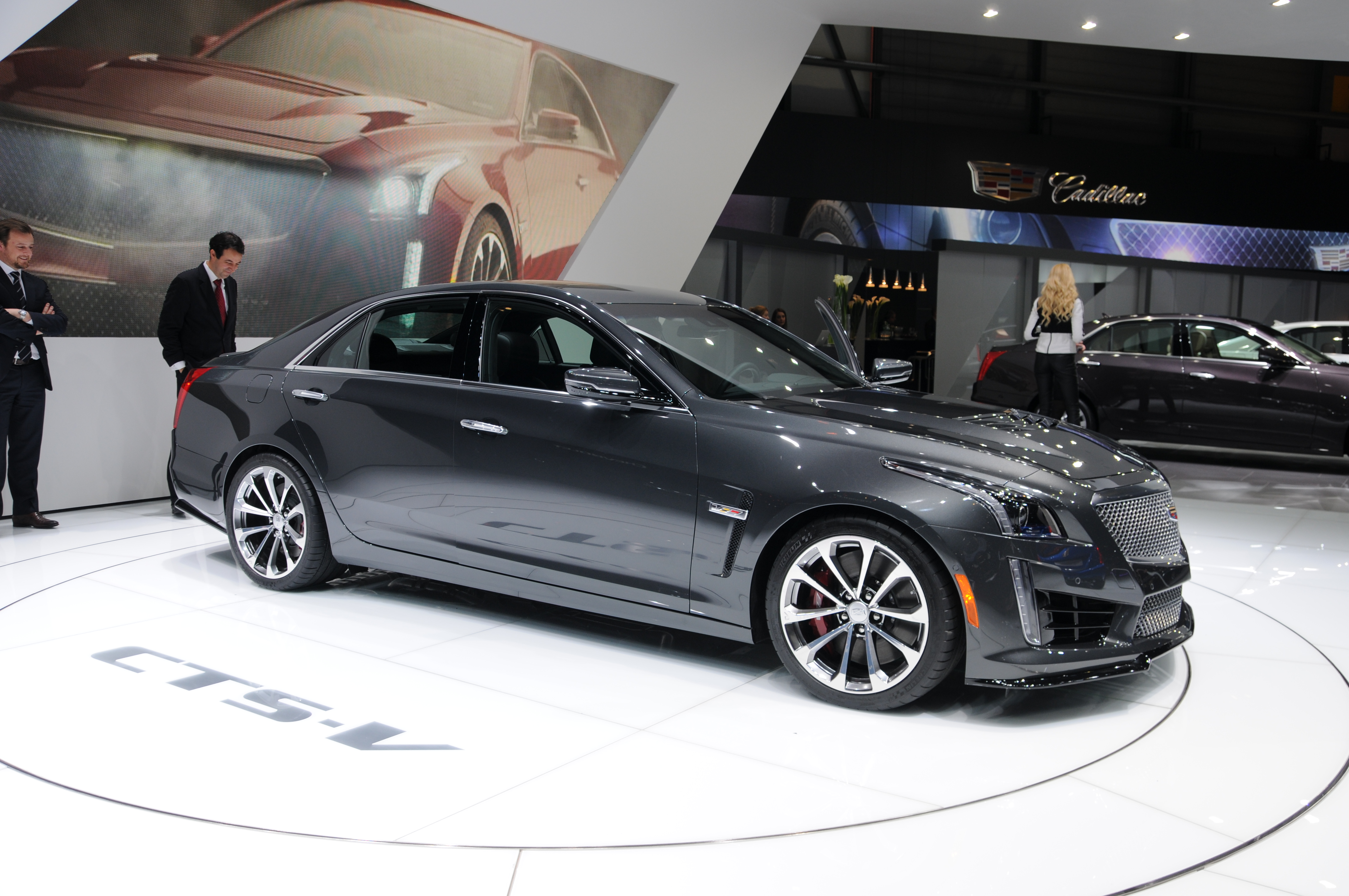 Geneva Motor Show 2015 (photo taken on the first press day)